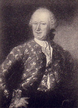 Portrait of Erik Skeel von Holsten (1710-1772), Danish nobleman, estate owner, judge, and disctrict officer